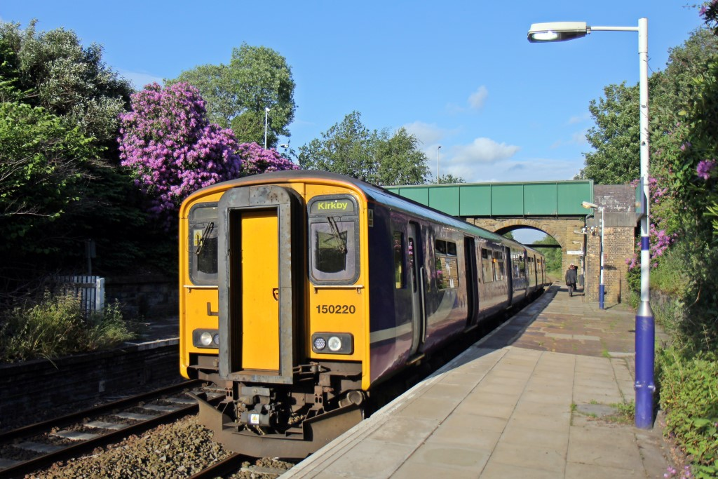 Northern Rail Class 150, 150220, Orrell railway station